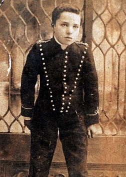 Charlie Chaplin, between age 14-16, appearing as Billy the Pageboy in the play Sherlock Holmes